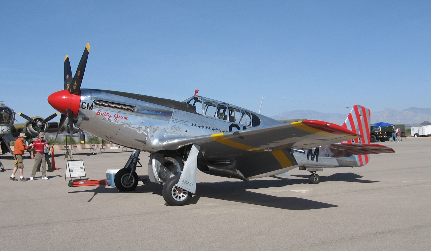 Collings P51C - Betty Jane